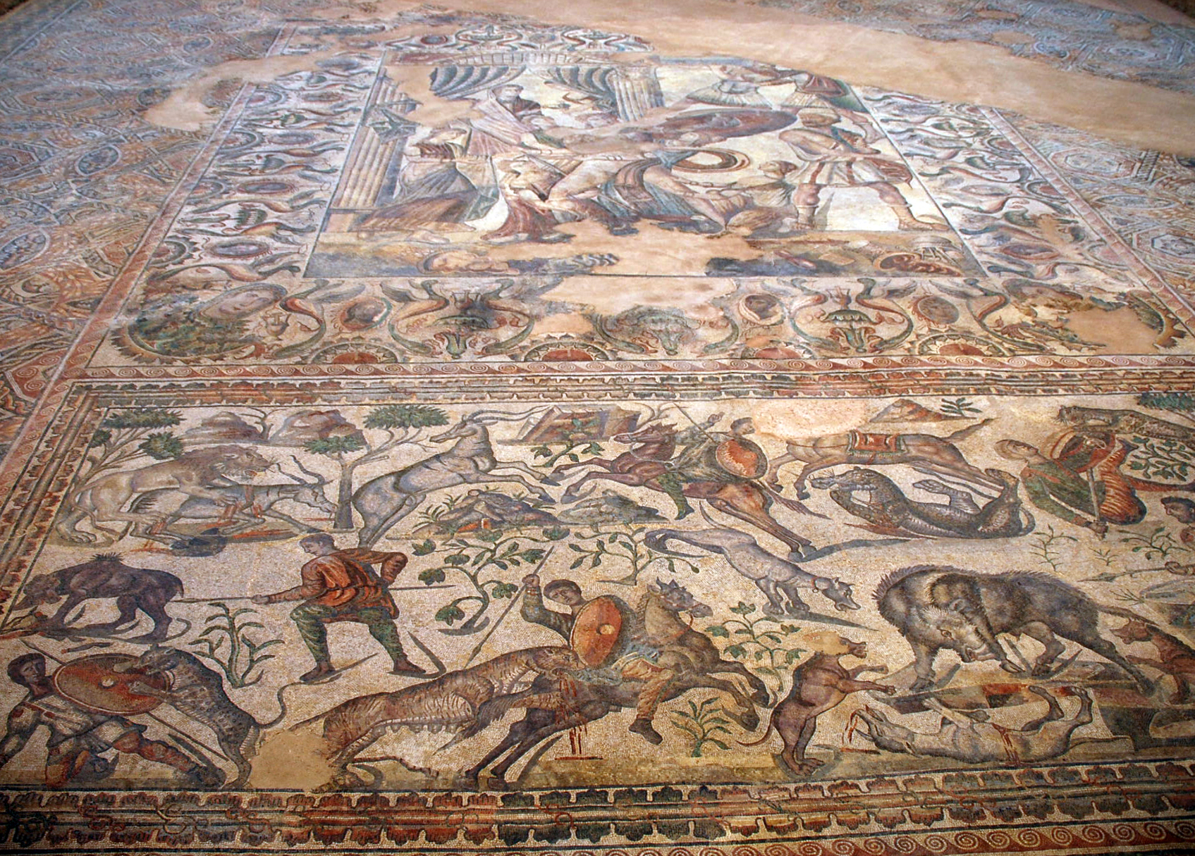 Figurative roman mosaic in roman villae of La Olmeda, Pedrosa de la Vega (Palencia, Castile and León).